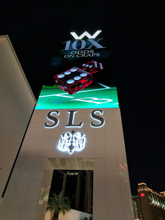 Sign for SLS Las Vegas/W Las Vegas, located along the Las Vegas Strip.